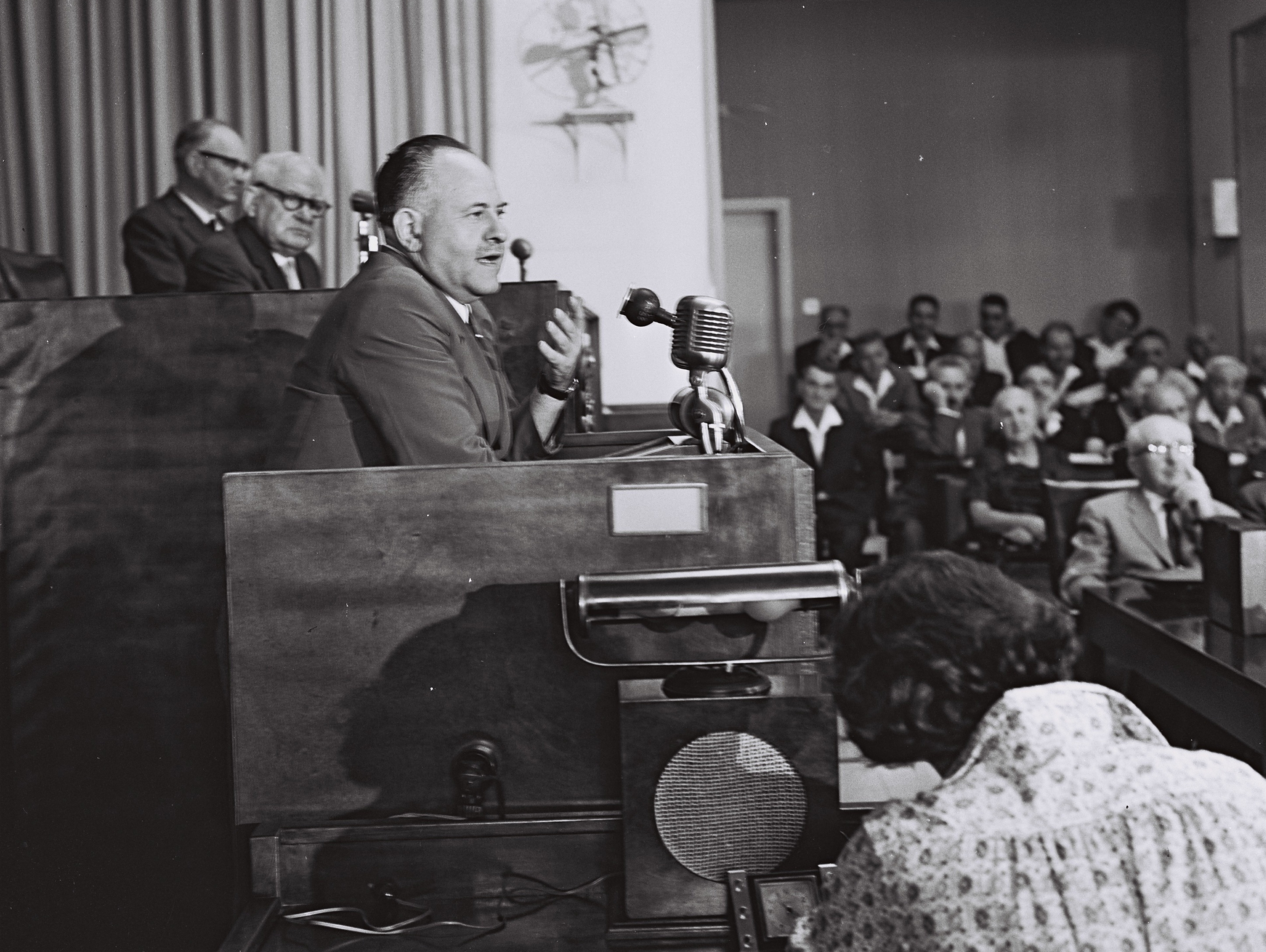 Dr. Moshe Sneh speaking at the opening session of the fifth knesset